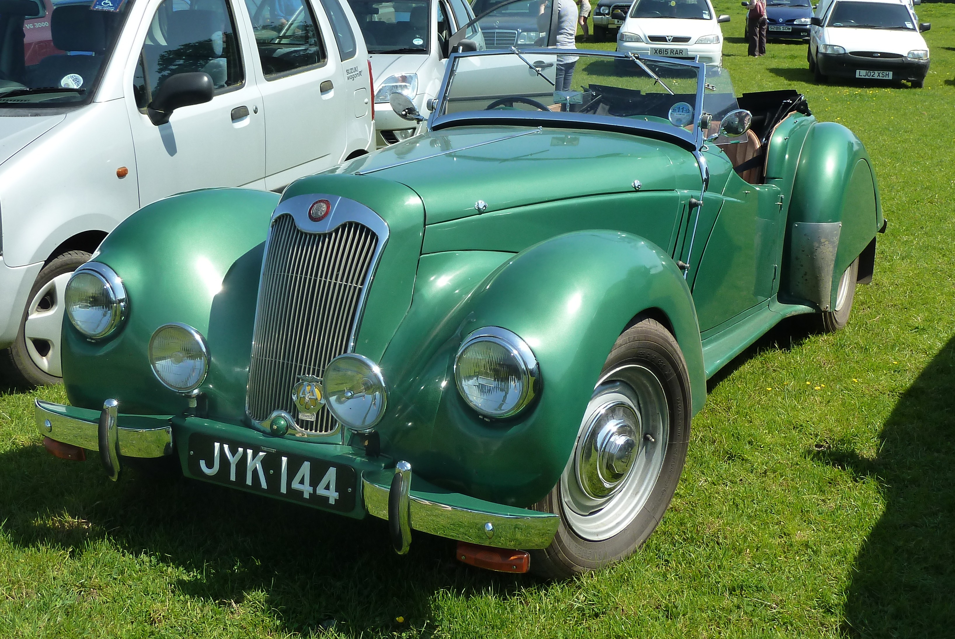 1948 Lea-Francis 14hp Sports Tourer, at the Cophill Farm vintage rally, near Chepstow, 2012.